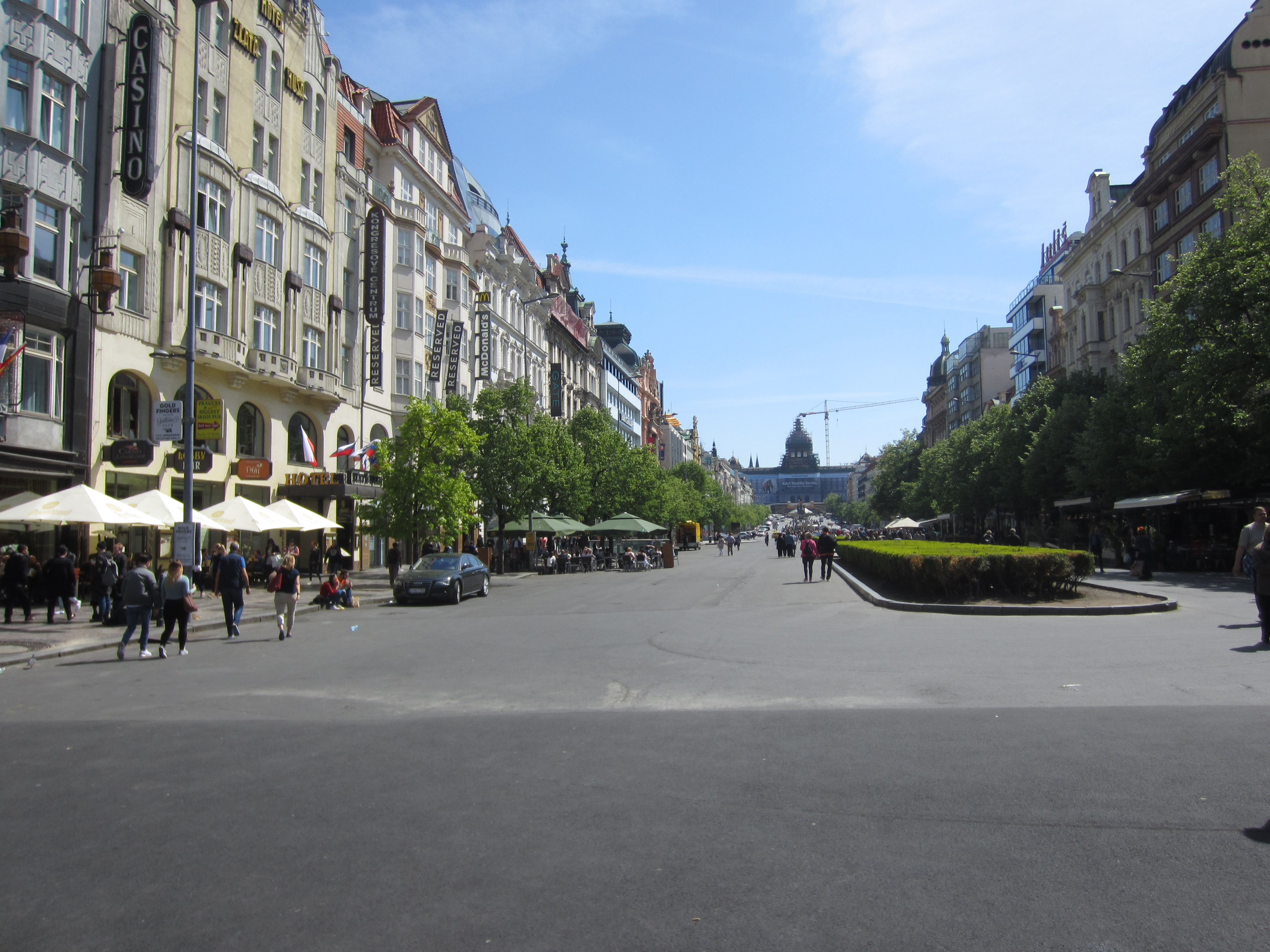 Prague, Czech Republic, April 2016